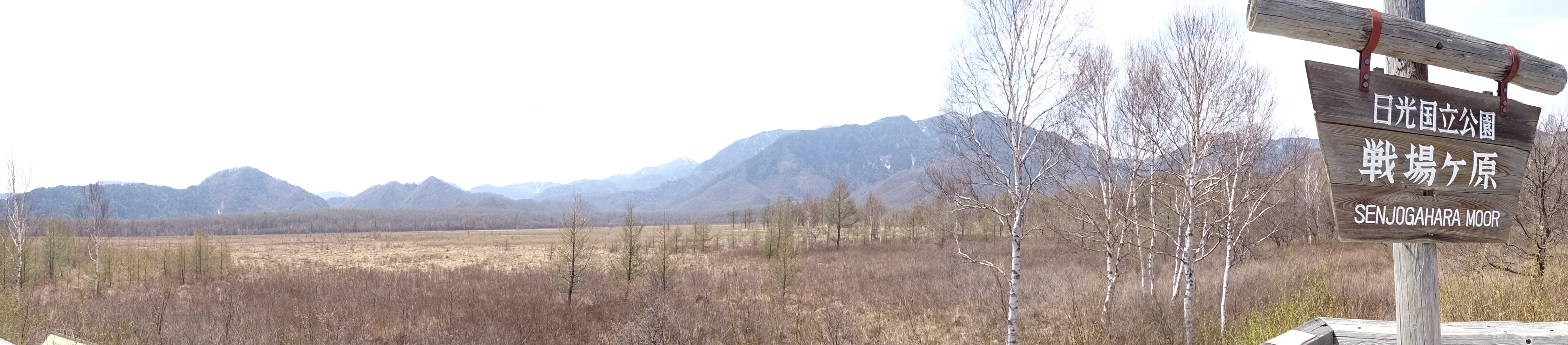 Japan: Senjōgahara in Nikkō (Tochigi prefecture).